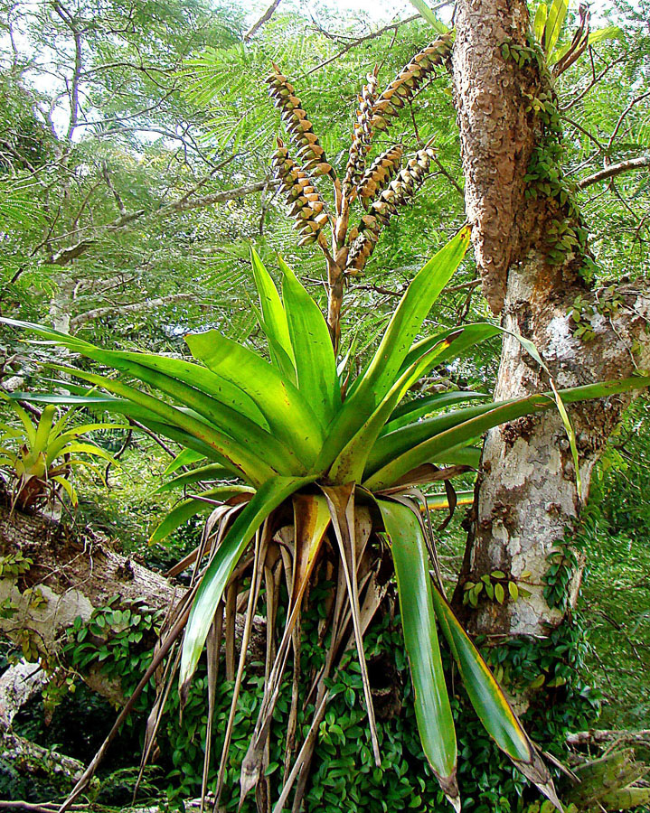 A tank bromeliad native from Nicaragua to Panama, here in the Canal Zone. In context at